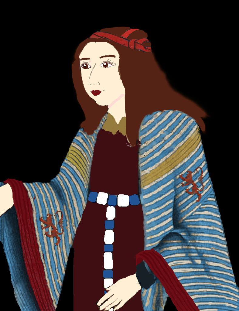 Ogiva of Luxembourg, Countess of Flanders